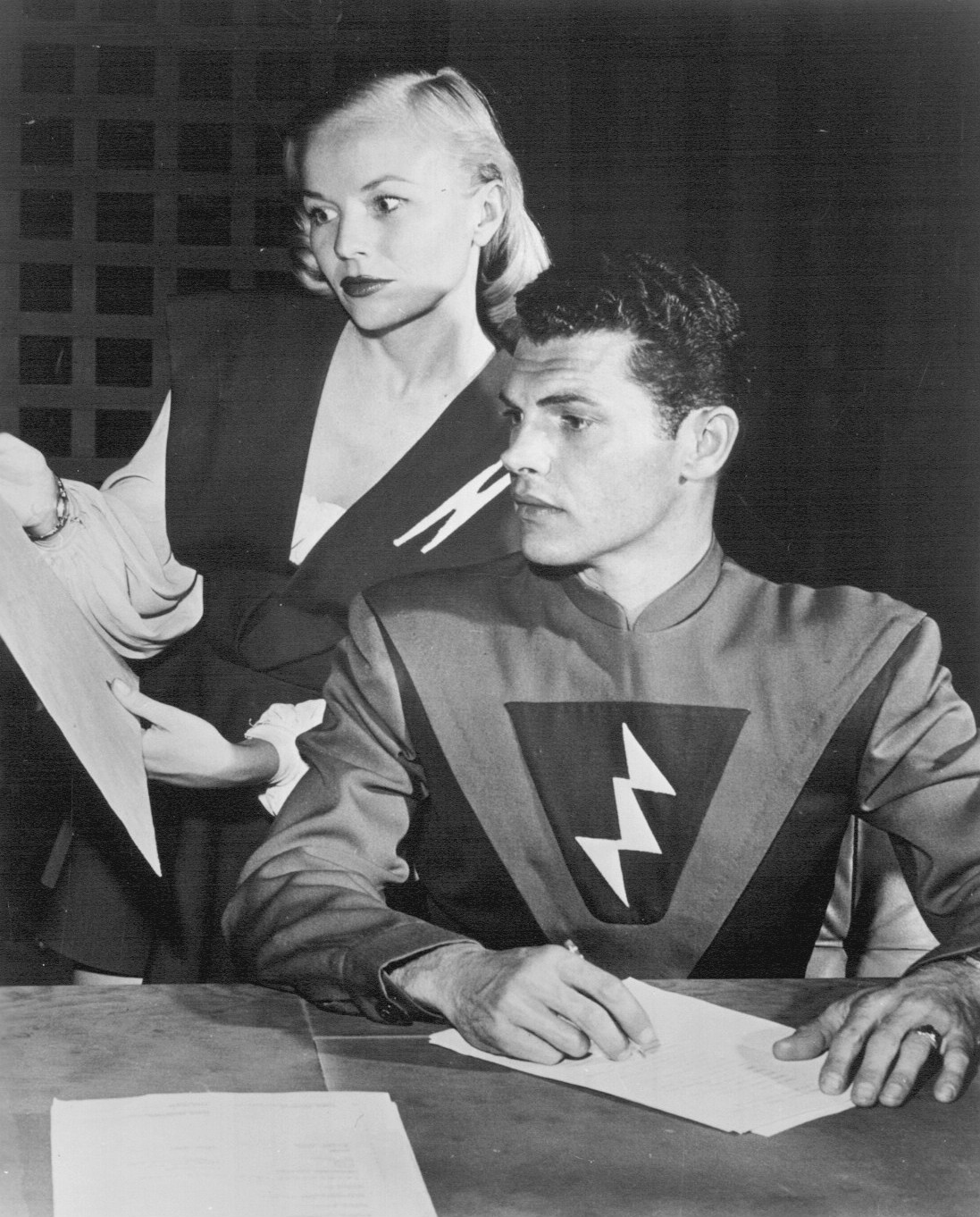 Photo of Virginia Hewitt as Carol and Ed Kemmer as Buzz Corey from the children's television series Space Patrol.